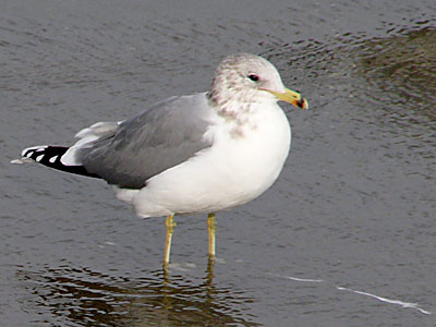 California Gull from US NPS